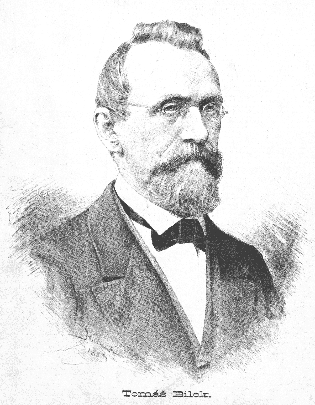 Portrait of Tomáš Václav Bílek (1819-1903), Czech high-school teacher and historian.